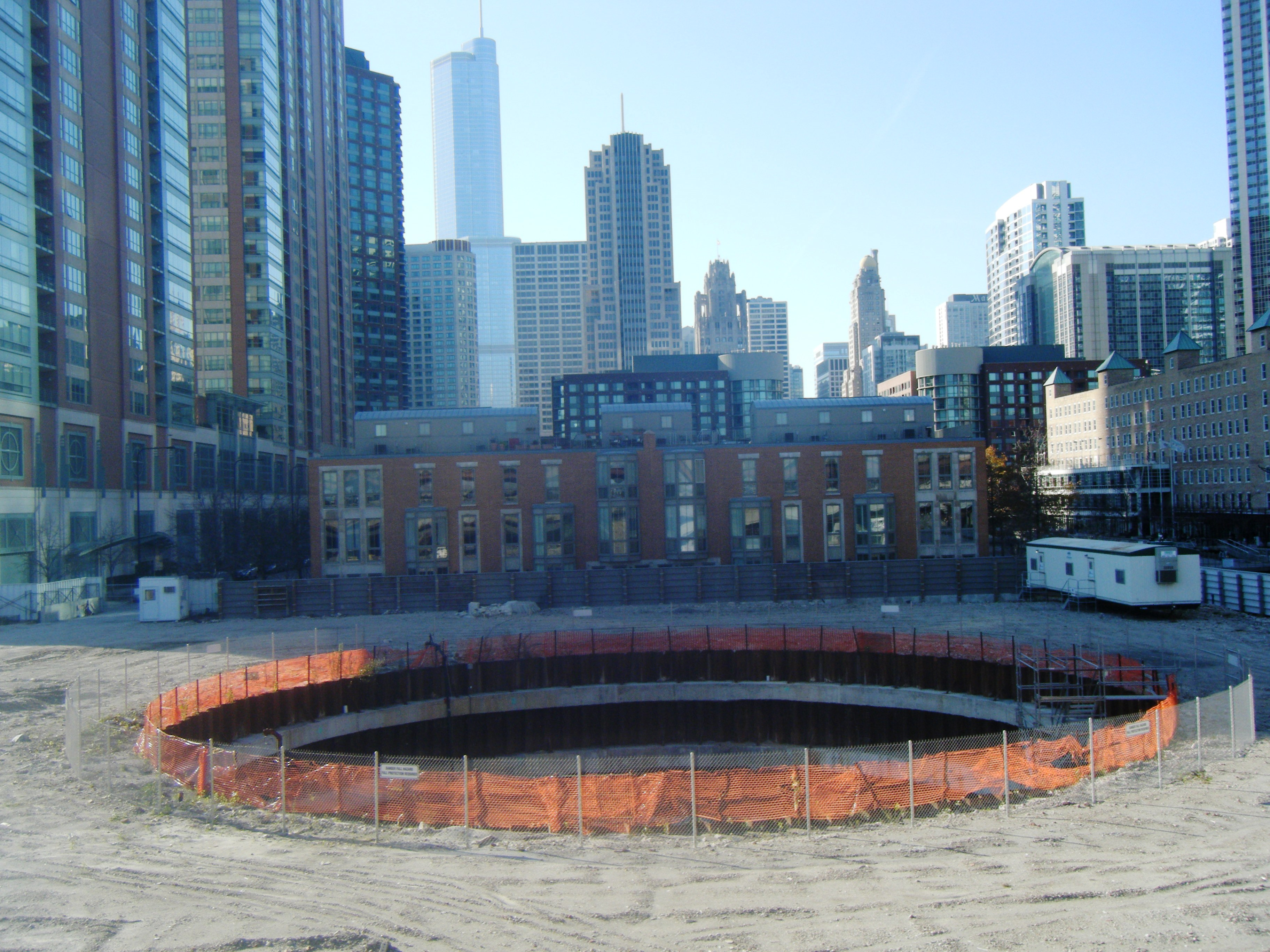 Updated picture of job site.